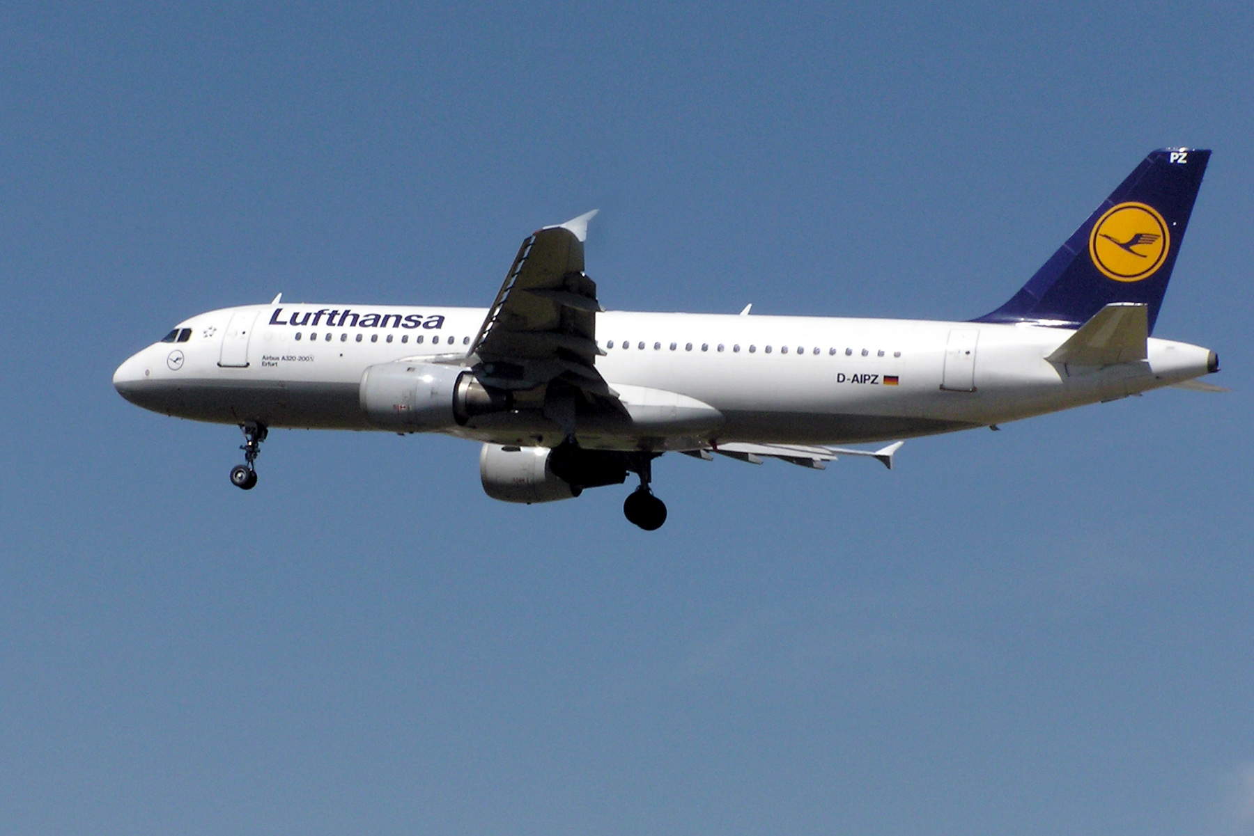 Lufthansa Airbus A320-200 (D-AIPZ, named "Erfurt") landing at London Heathrow Airport, England.